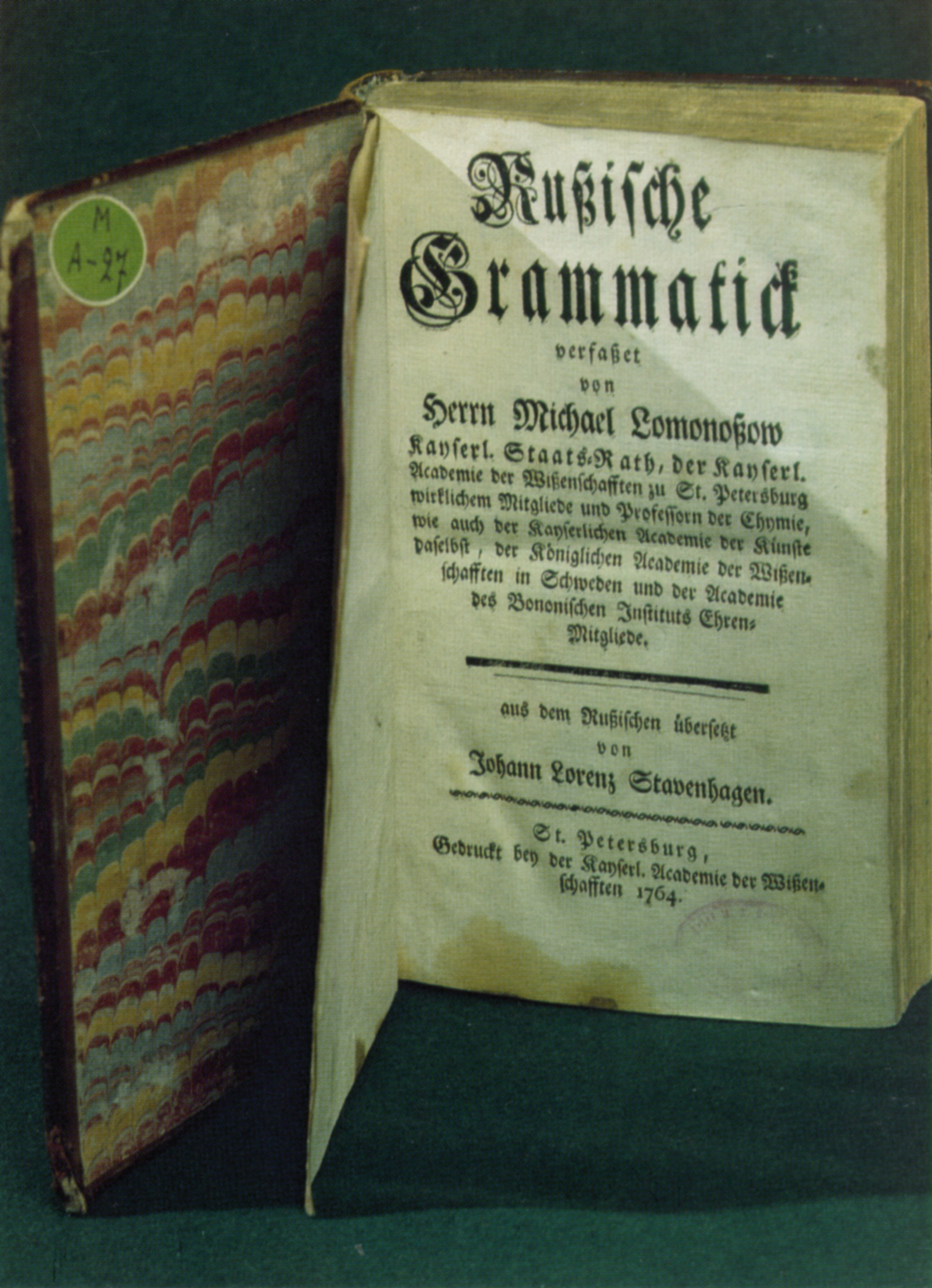 M.. Lomonosov. Russian Grammar in German. St.Petersburg. 1764